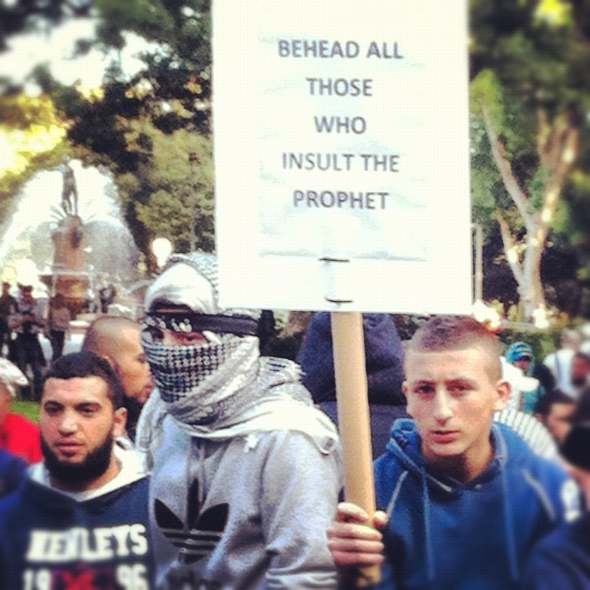 Sign reads "behead all those who insult the prophet". Archibald fountain visible in the background.